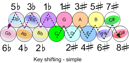 Key-shifting on a jammer. Closely matches traditional music notation.